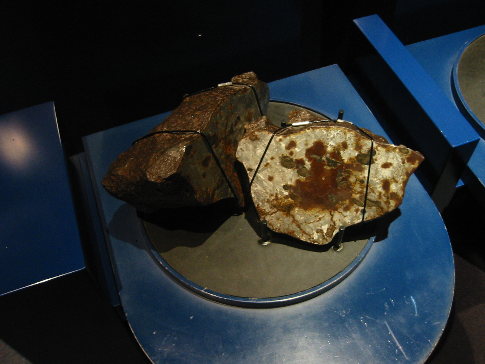 Odessa meteorite. Found 1922, Odessa, Texas, United States. 20.9㎏